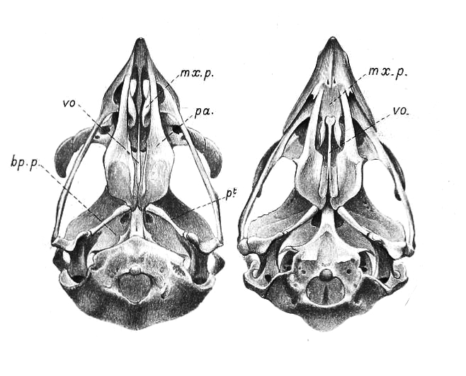 Skulls of Falconiformes Ventral aspect of the skull Left.Skull of Elanus caeruleus. The palate is schizognathous. Herein the maxillo-palatines have increased in size, whilst the septo-maxillary spurs have completely disappeared. The nasal septum is more complete than in Catharistes and may be seen lying in the middle line of the anterior palatal vacuity. Above the inflated region of the maxillo-palatines it sends downwards a feeble pair of spurs which nearly touch the maxillo-palatines. The basipterygoid processes are represented only by a pair of minute prickles. Right. Skull of Falco minor. The palate is completely desmognathous. Note the peculiar form of the vomer, and its relation to the maxillo-palatines. The antrum of the maxillo-palatines is reduced to the merest vestige. A.p.v. = anterior palatal vacuity. bp.p. = basipteiygoid process. mx.p. = maxillo-palatine process. n.s. = nasal septum. p.a. = palatine. p.a.a. = palatal aperture of antrum. pt. = pterygoid. s. = spur of nasal septum. vo. = vomer.